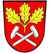 Coat of Arms of Laufach